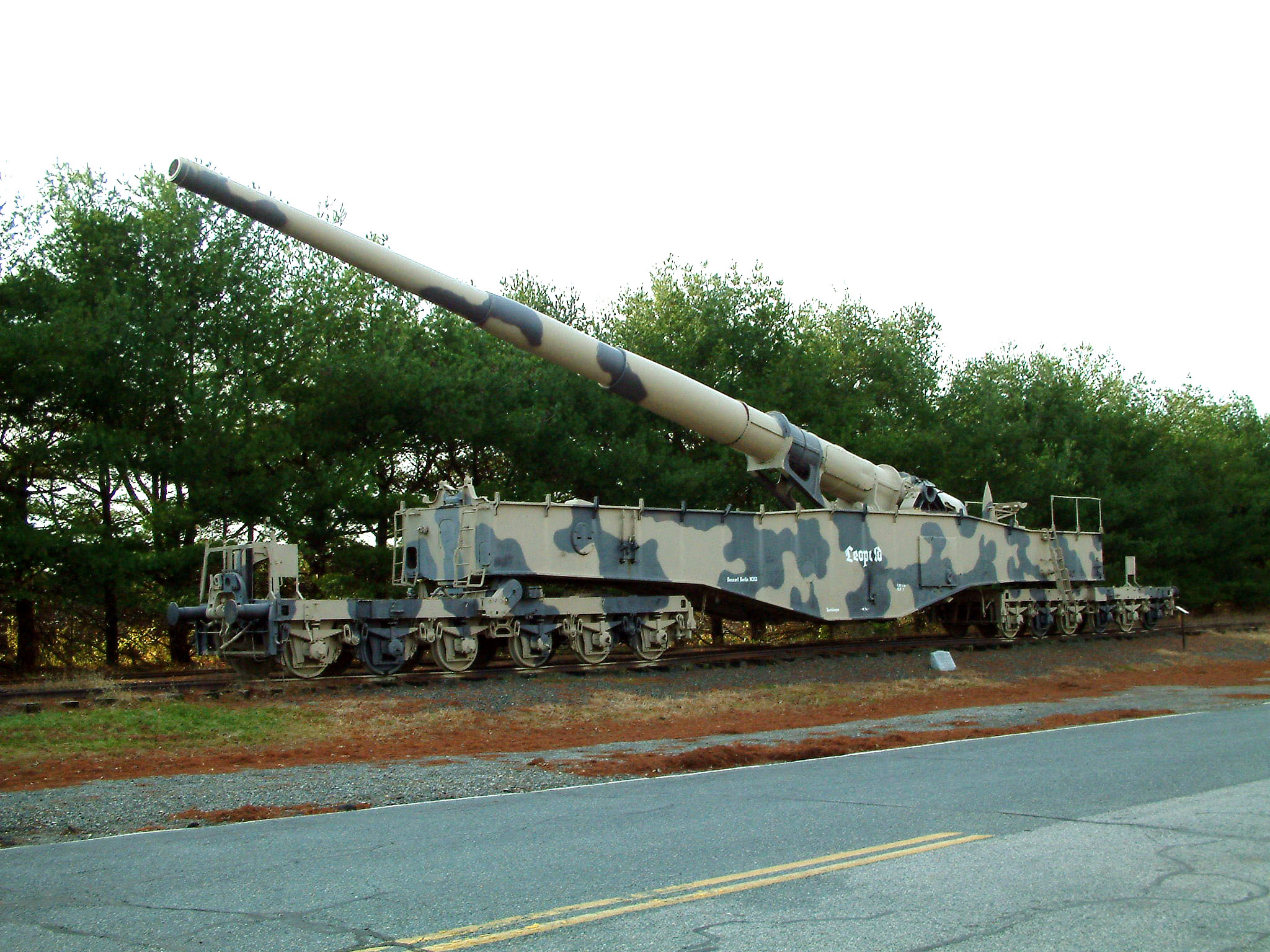 German "Leopold" railway gun of World War II. Also known as "Anzio Annie". See Krupp K5. Across the street from Museum building front entrance at U.S. Army Ordnance Museum, in Aberdeen, Maryland, USA. 1.1MB @ 2048 x 1536